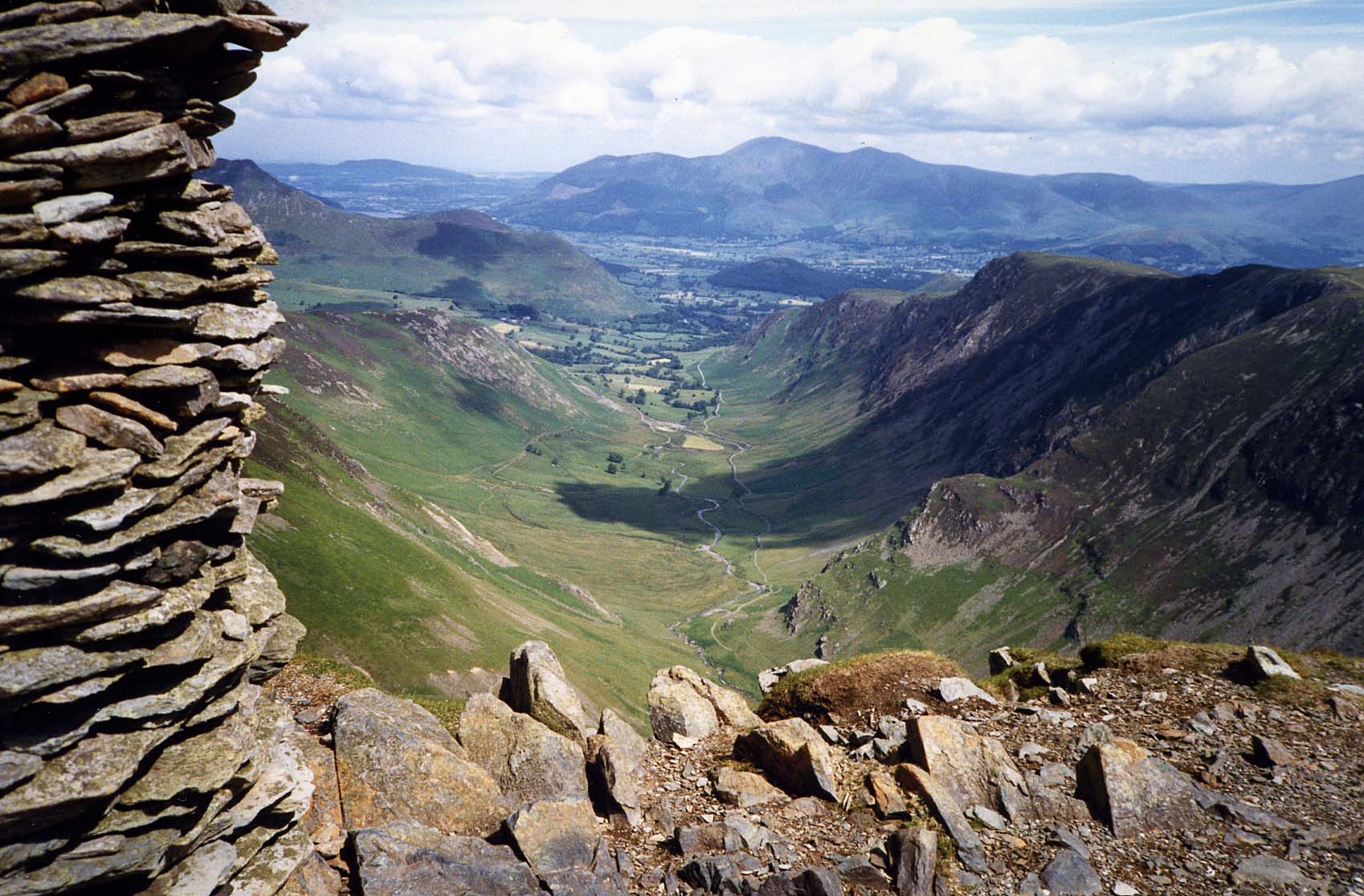 View from the cairn on Dale Head down the Newlands valley